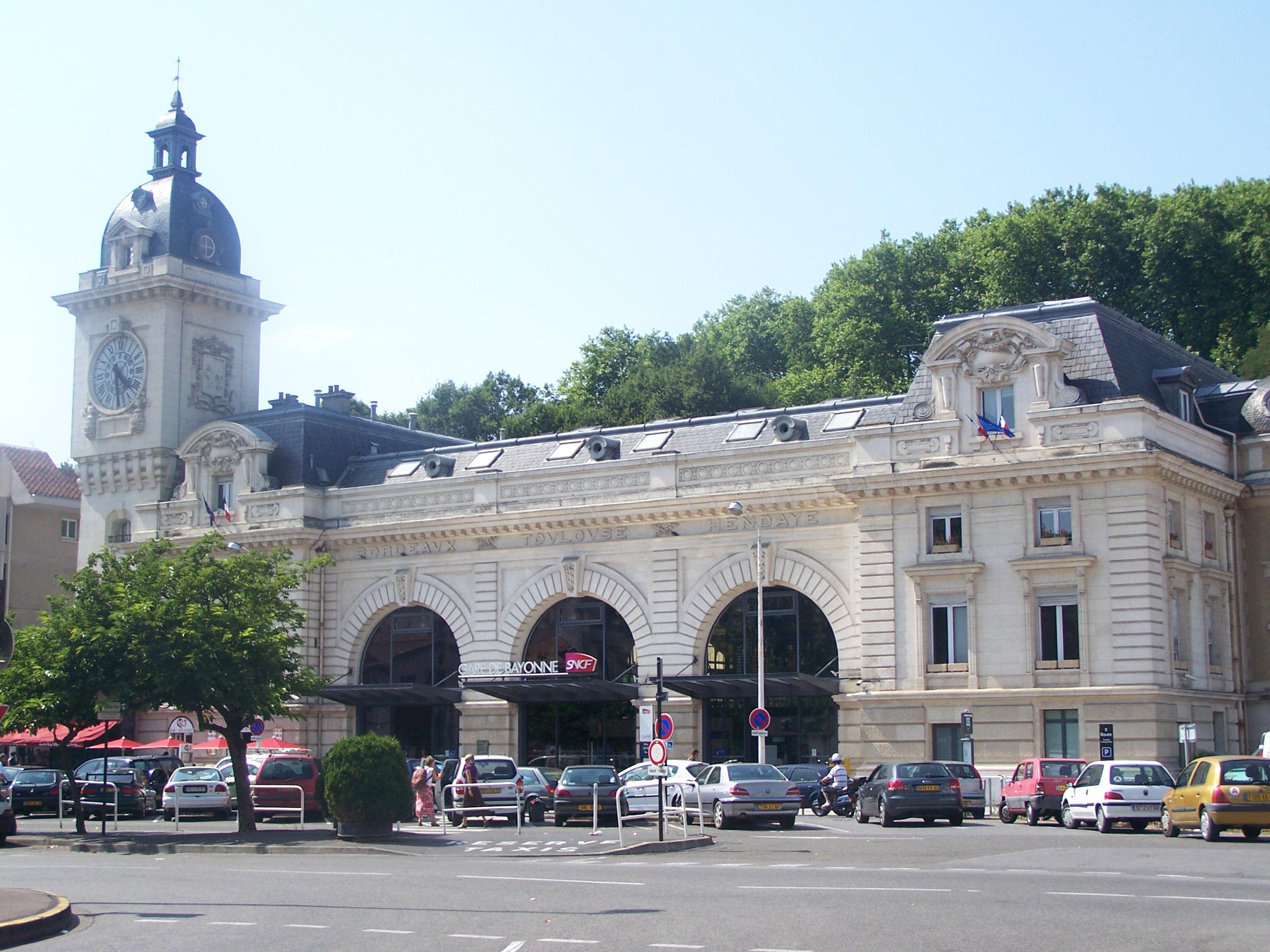 Front of the city of Bayonne train station, in the French department of Pyrénées-Atlantiques.